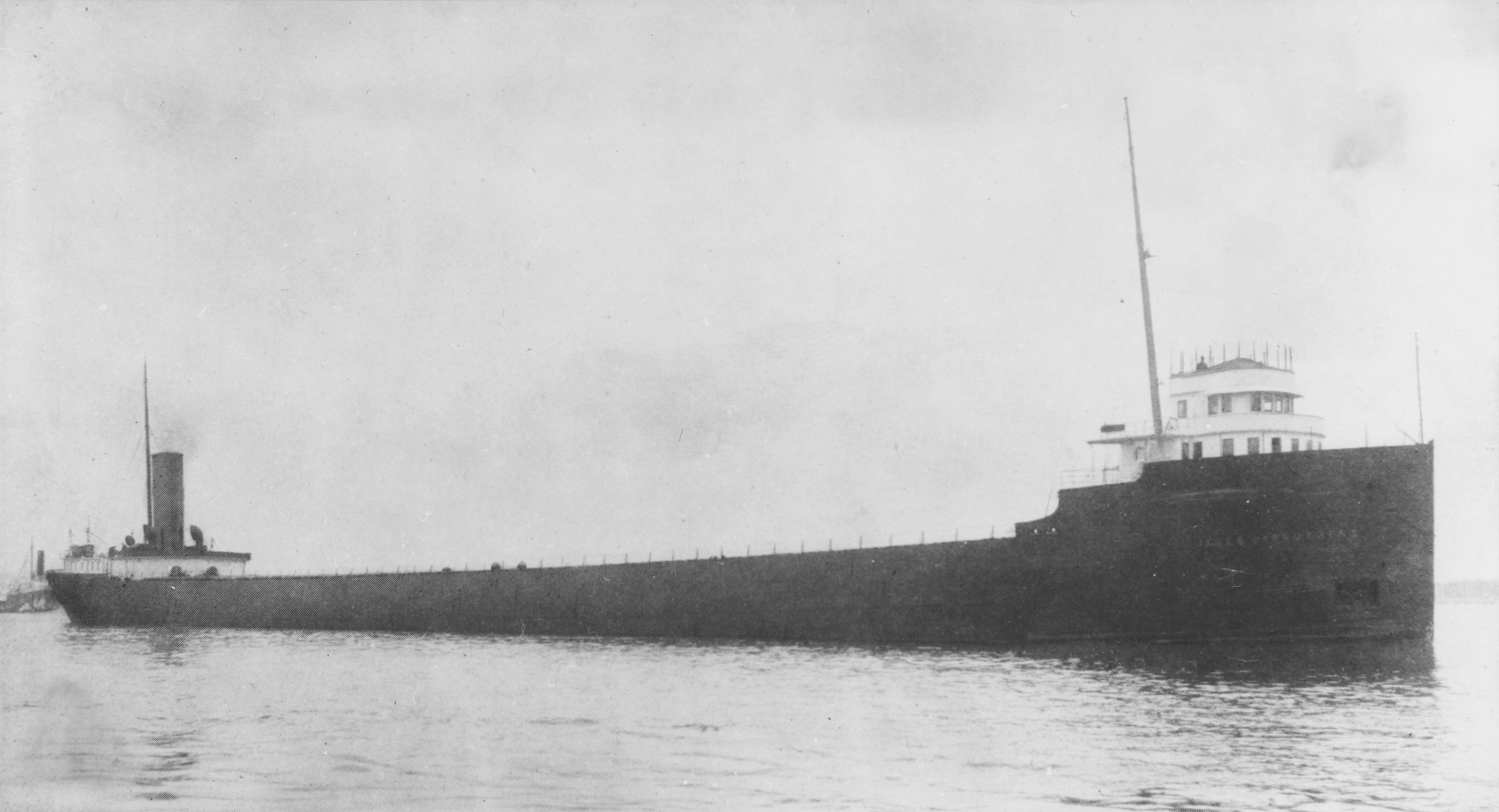 The Canadian steamer James Carruthers underway